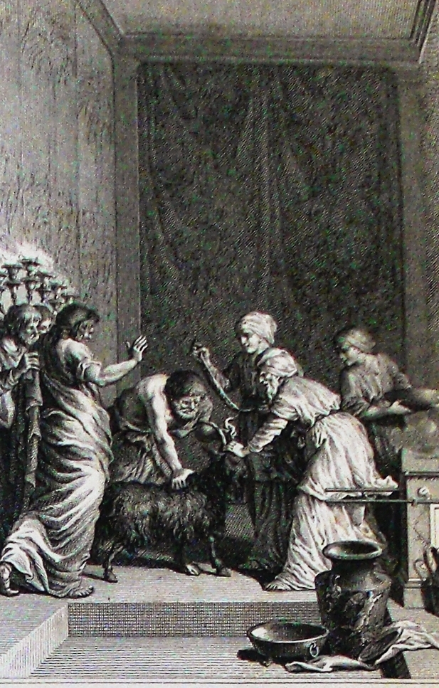 A print from the Phillip Medhurst Collection of Bible illustrations in the possession of Revd. Philip De Vere at St. George’s Court, Kidderminster, England.